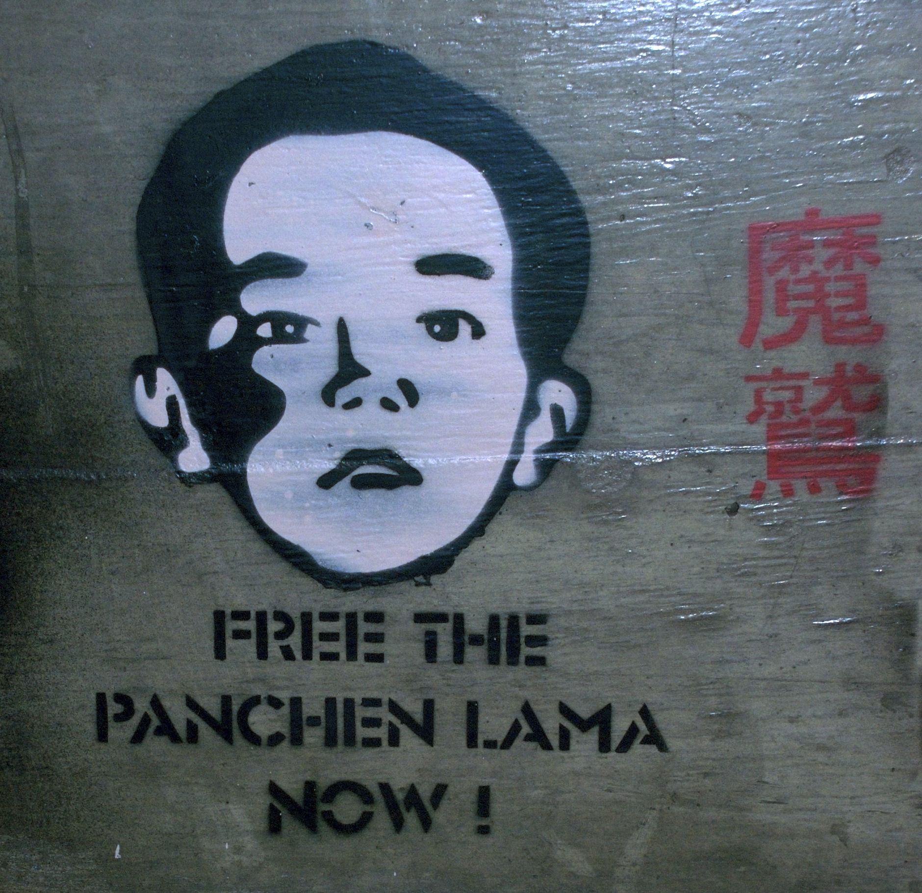 Cans Festival, Leake St. May Bank Holiday